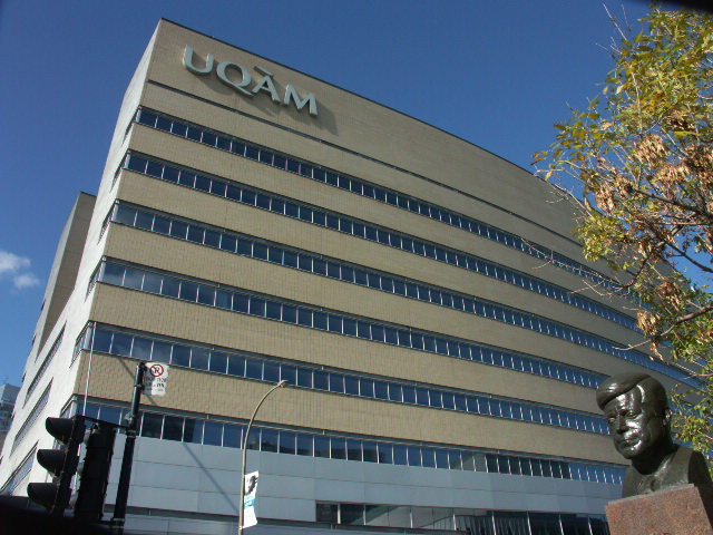 UQAM Président-Kennedy building, Montreal. Photo by: User:Gene.arboit